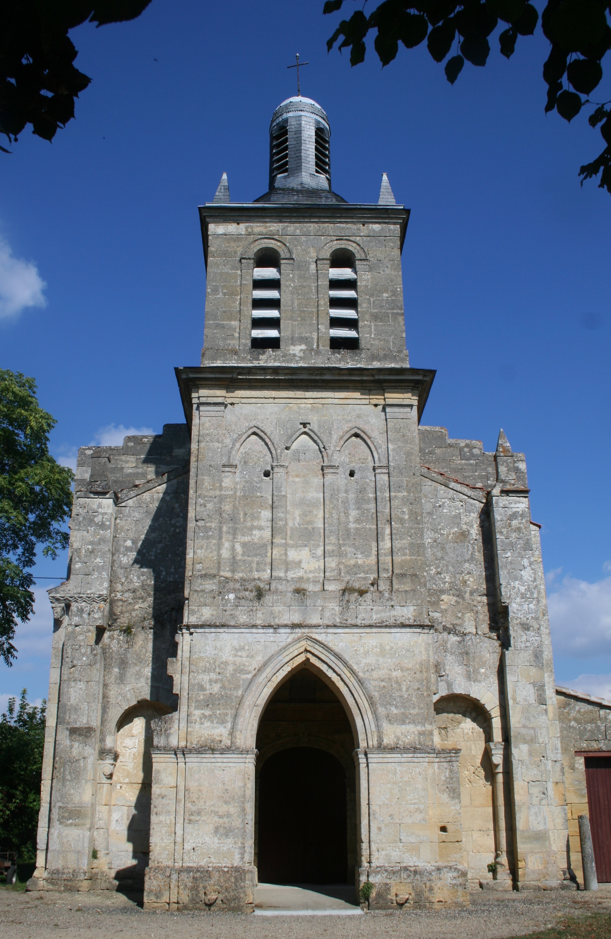 The front of the Cubzac church.